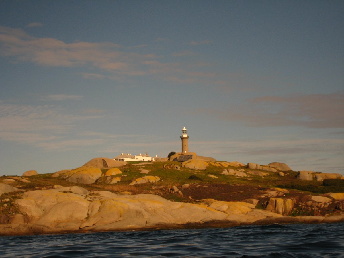 Montague Island and lighthouse from the west.